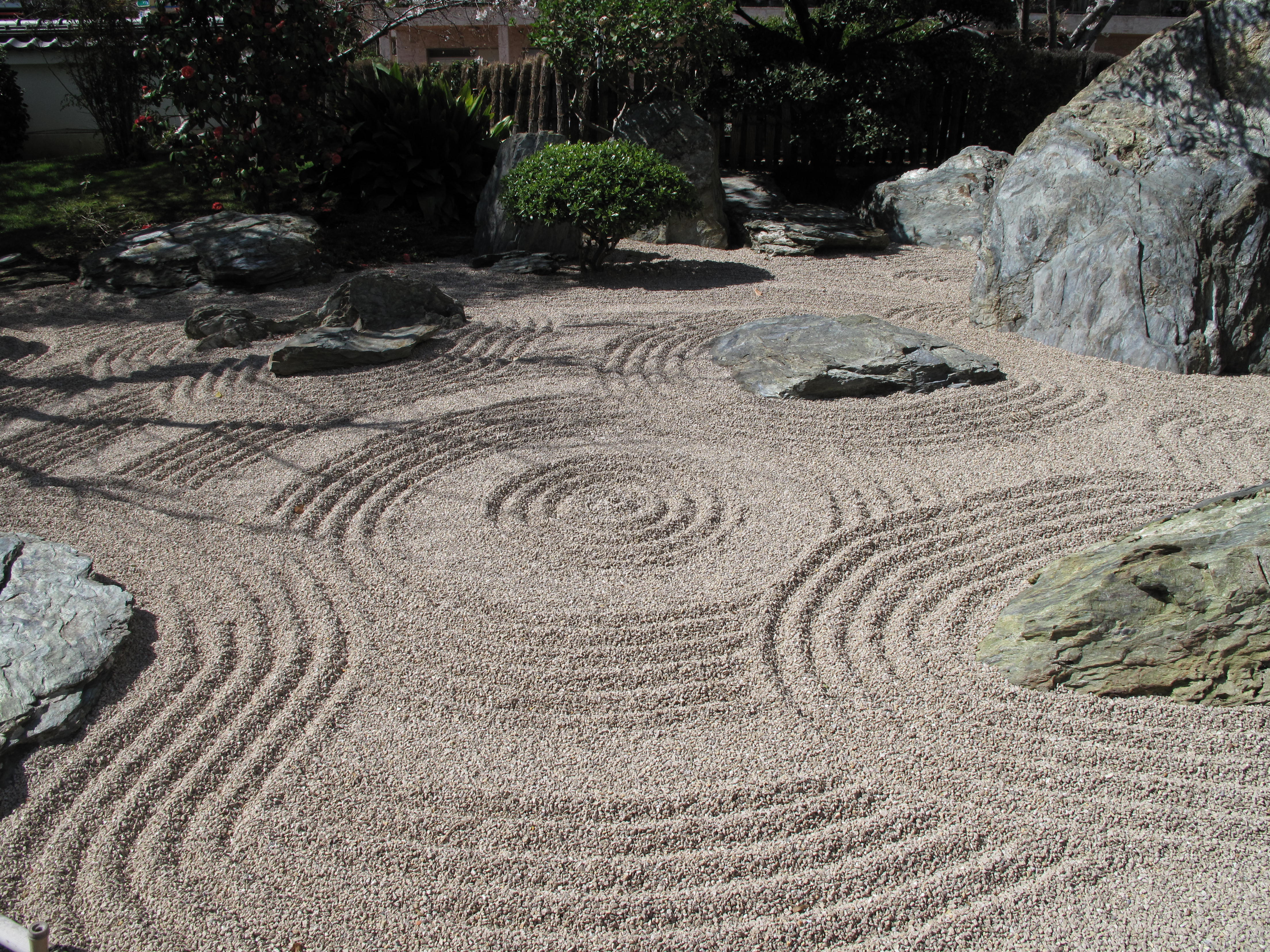 Dry landscape in japanese garden of Monaco